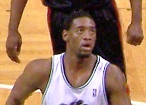 Jason Kapono attempts a jump shot while open during the final 2005-2006 regular season game of the Miami Heat in Boston.